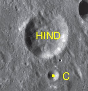 Part of the chart LAC-77.